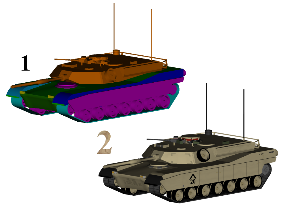 textured vs non-textured 3d model of a M1A2 Abrams